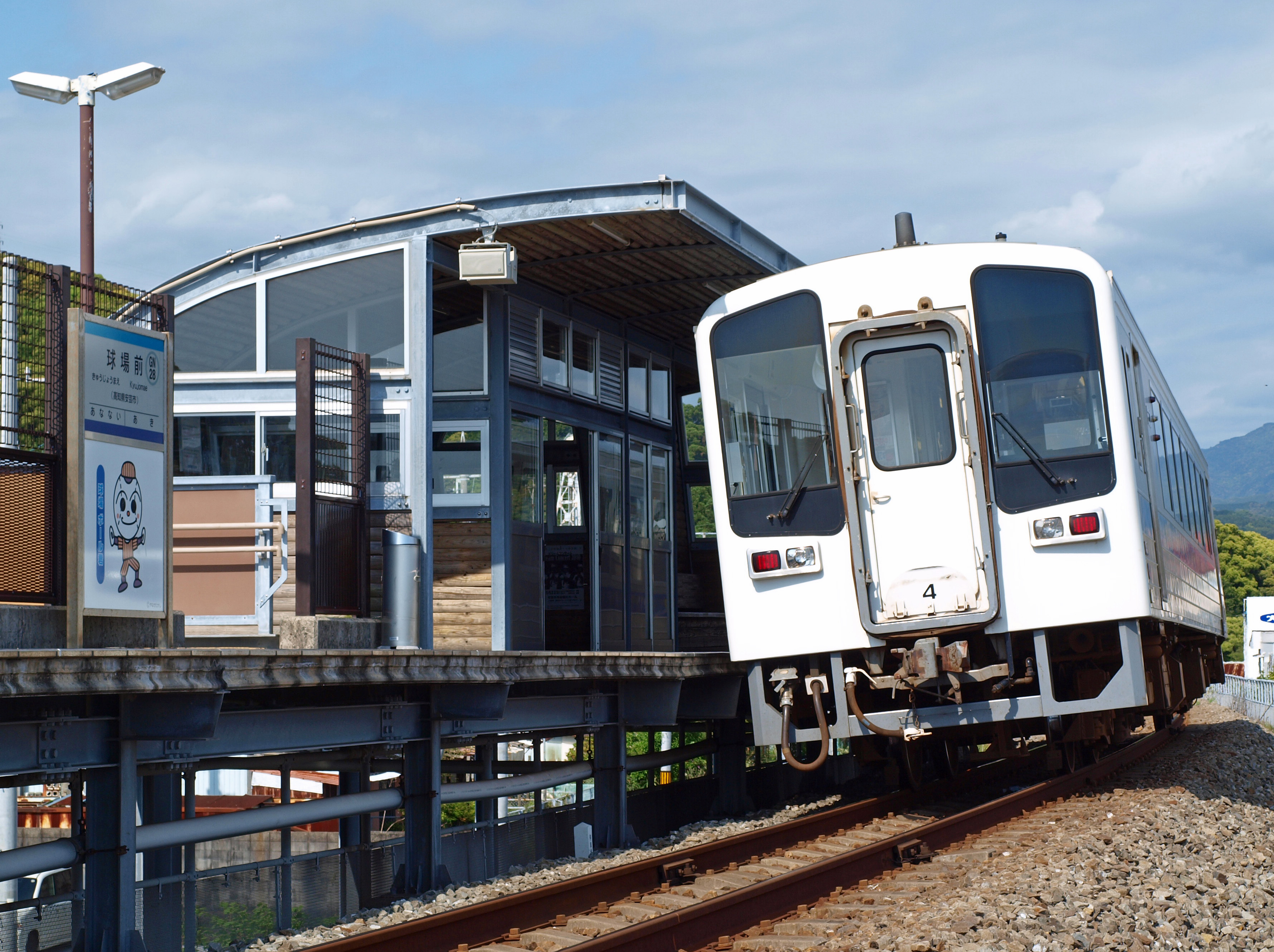 Kyujomae Station, Gomen-Nahari Line（Asa Line), Tosa Kuroshio Railway, Japan